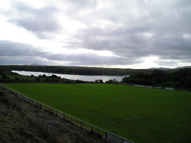 Monastery Field Rugby Pitch - home of Connemara RFC, known as the Connemara Blacks, a Rugby Union team playing under the Connacht Branch of the IRFU. It's not a rugby heartland but they're a proud club and must be the most westerly rugby club in europe.